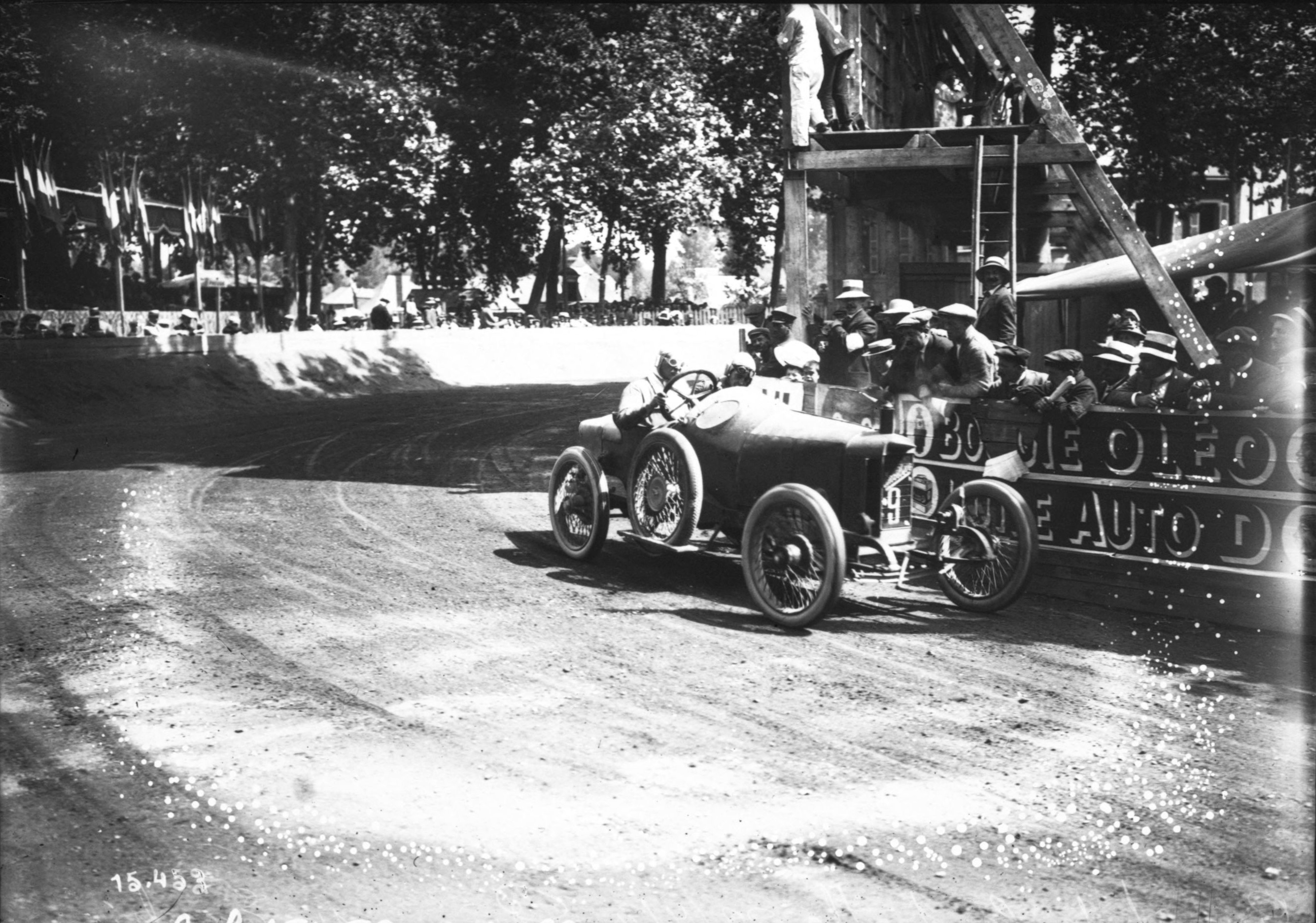 Riviere at the 1911 Grand Prix de France at Le Mans.